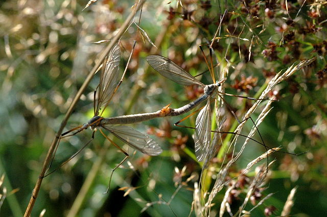 Picture taken in Commanster, Belgian High Ardennes . Species: Tipula paludosa couple